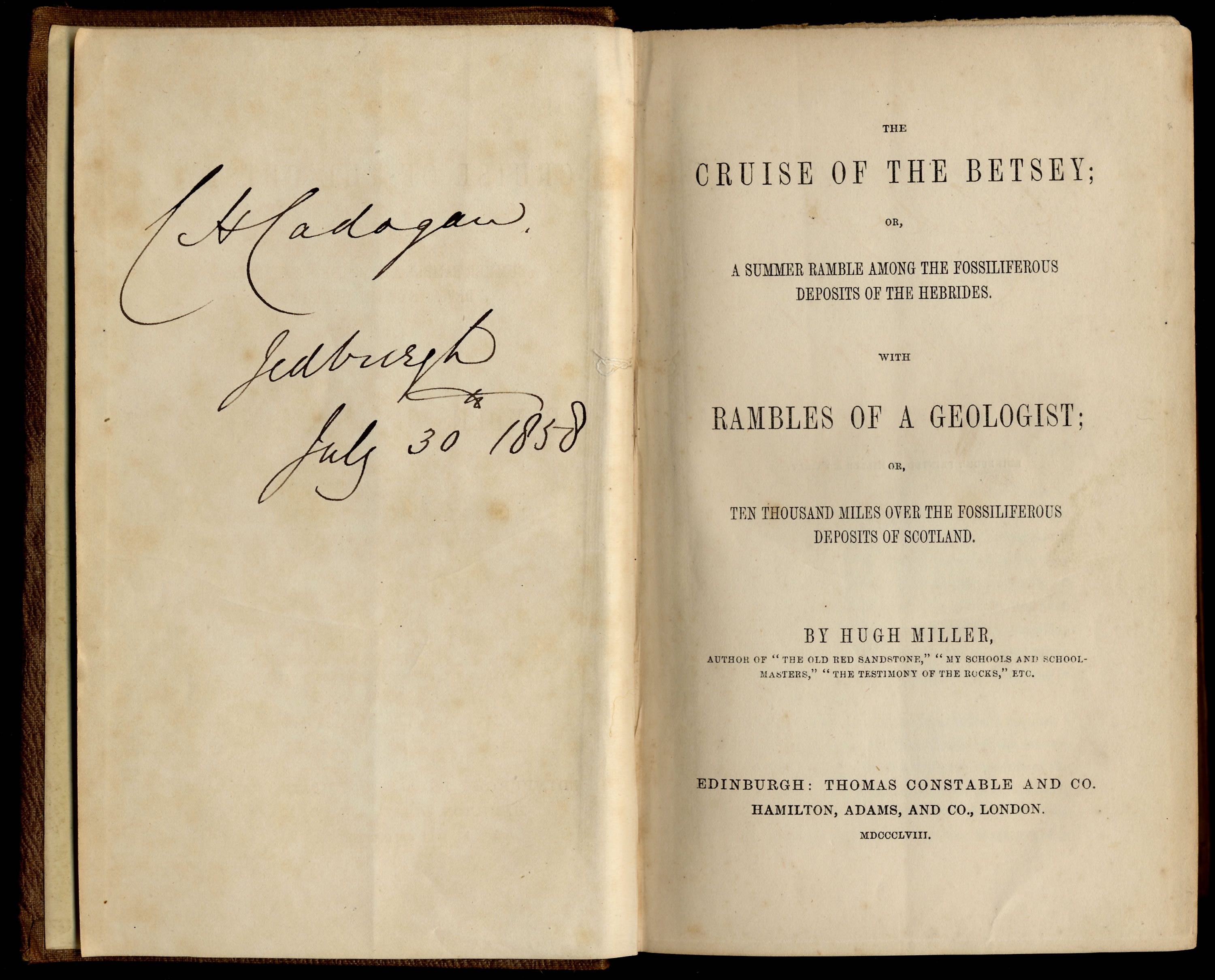 Title page of 1858 edition of "Cruise of the Betsey" by Hugh Miller with handwritten inscription by owner dated 1858. I scanned this image from a personal copy of the book.